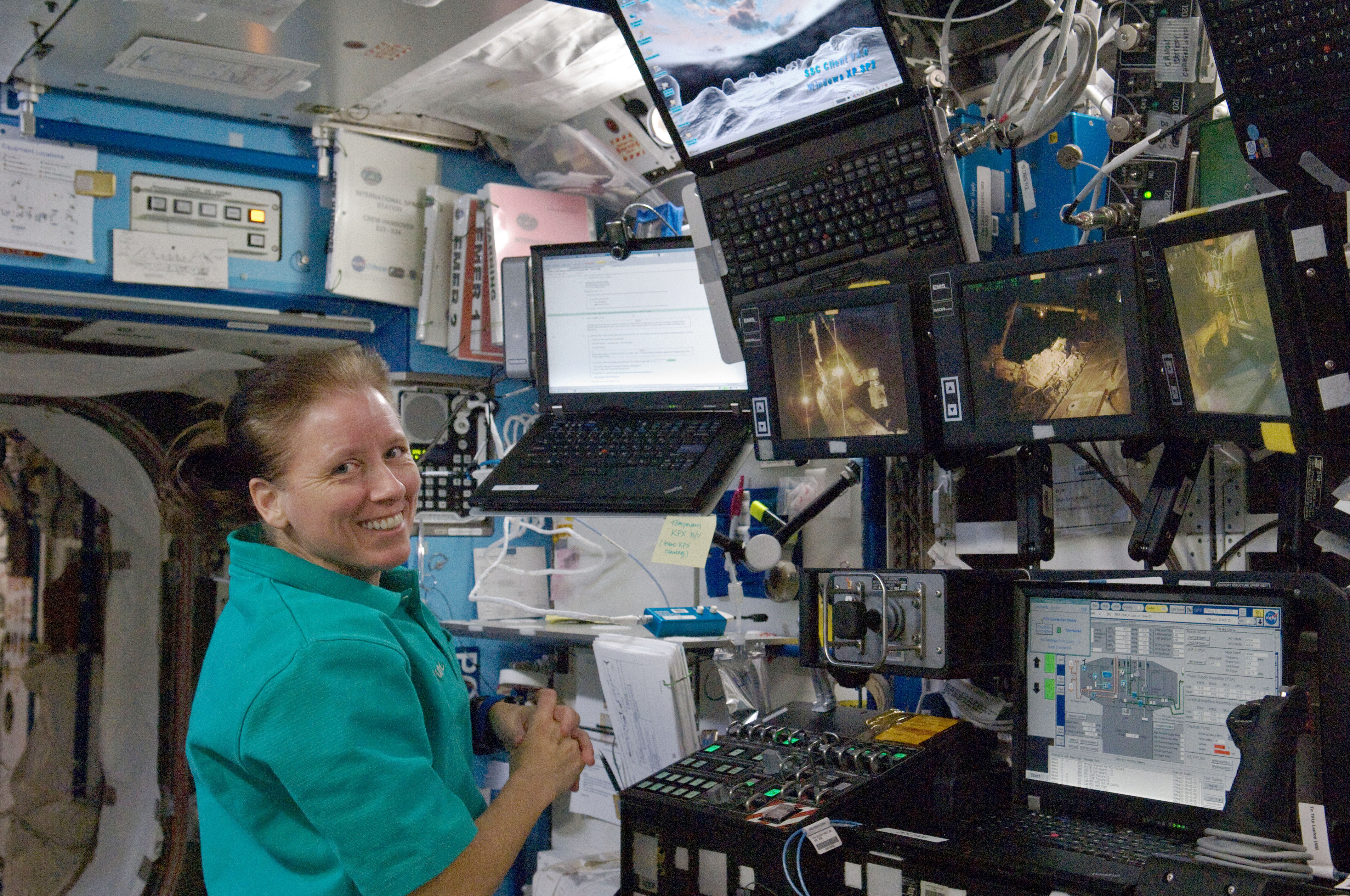 NASA astronaut Shannon Walker, Expedition 24 flight engineer, is pictured near a robotic workstation in the Destiny laboratory of the International Space Station.